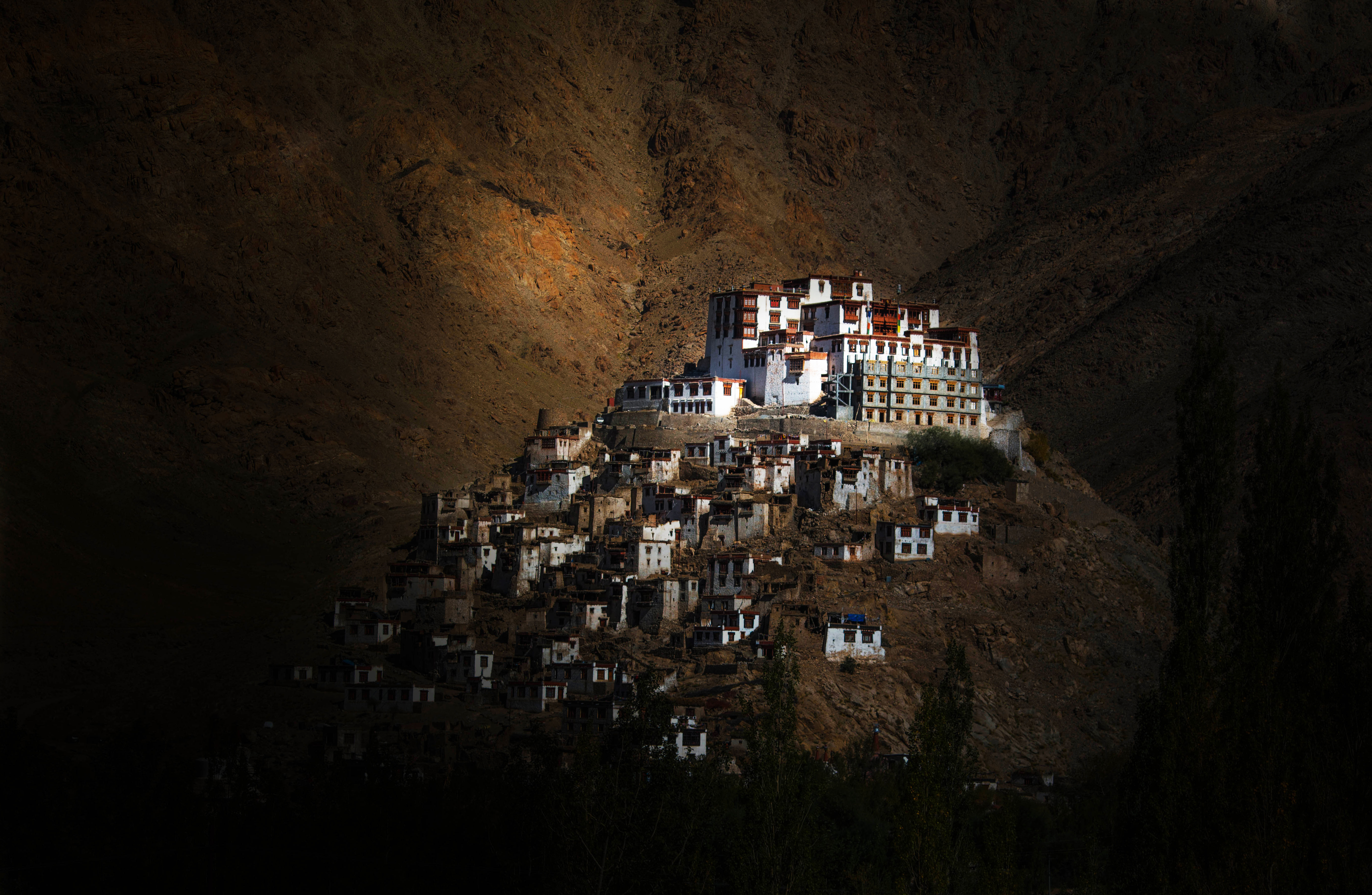 ray of light on falling directly on chemrey monastry